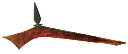 photo of Iowa tribe (Ioway) gunstock war club, from Nebraska, ca. 1800-1850